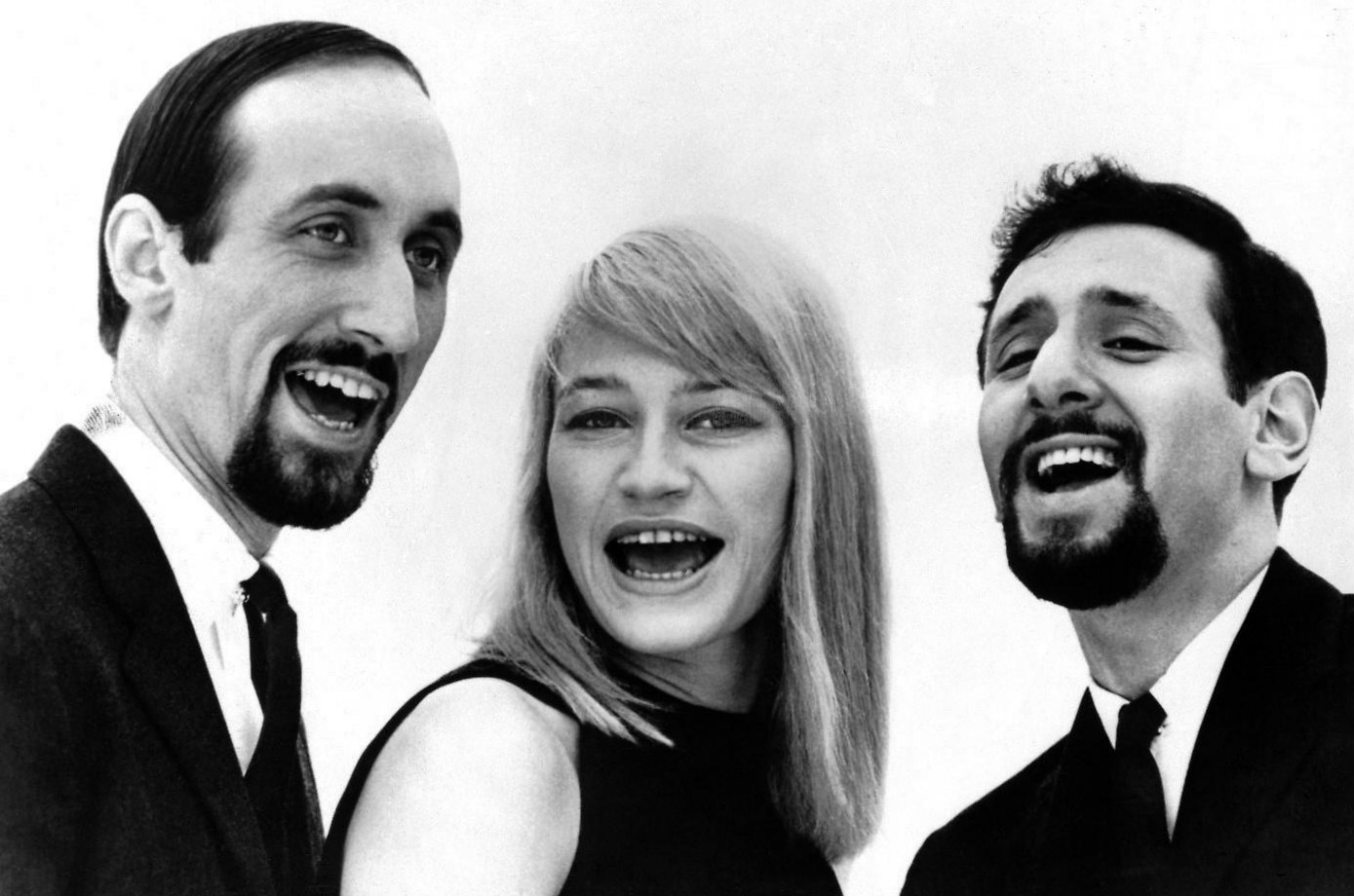 Photo of folksingers Peter, Paul and Mary.